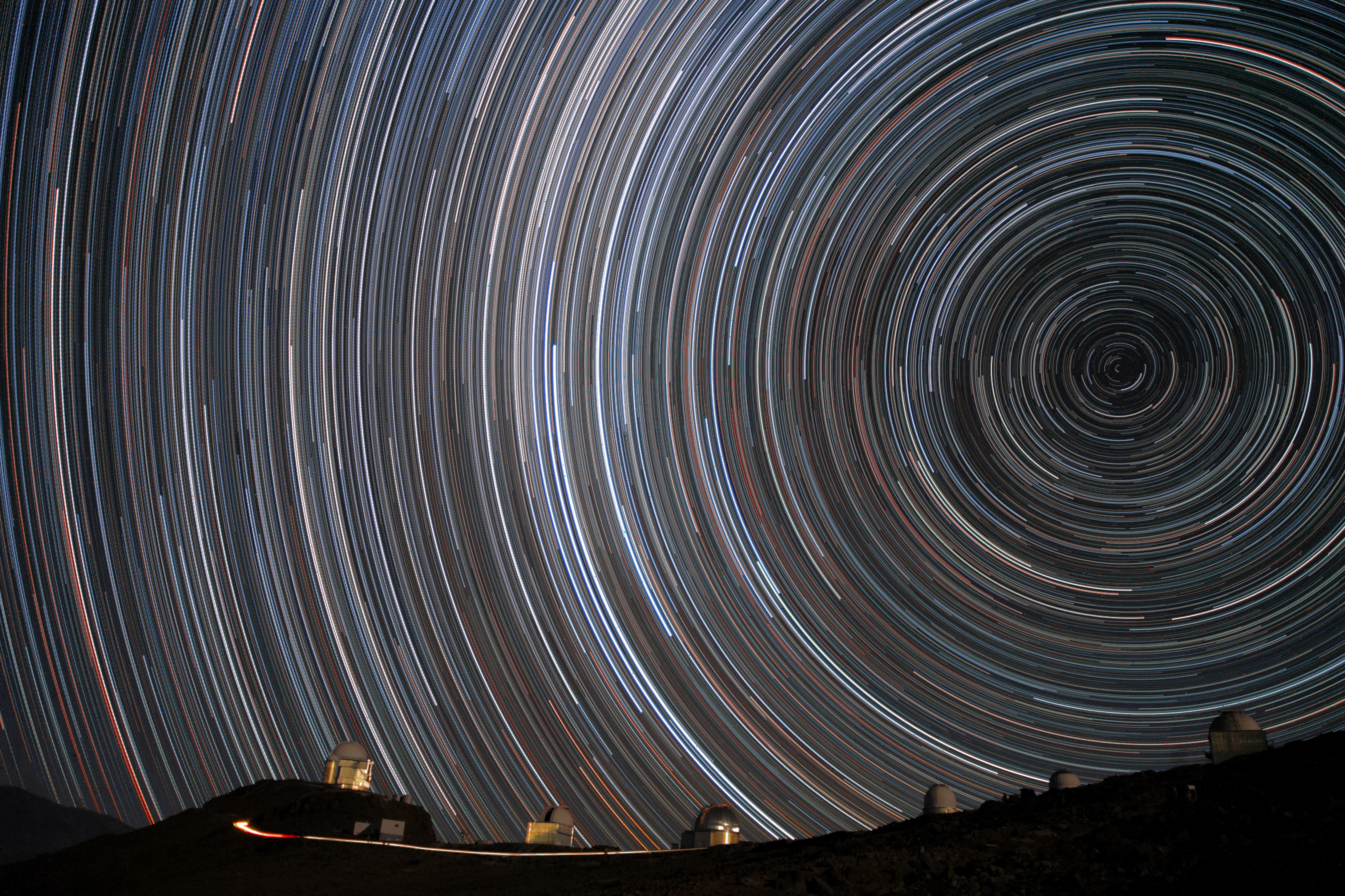 This image, taken by ESO Photo Ambassador Alexandre Santerne, is more than a little disorientating at first glance! Resembling an optical illusion or an abstract painting, the starry circles arc around the south celestial pole, seen overhead at ESO's La Silla Observatory in Chile. Each circular streak represents an individual star, imaged over a long period of time to capture the motion of the stars across the sky caused by the Earth’s rotation. La Silla is based in the outskirts of Chile’s Atacama Desert at some 2400 metres above sea level, and offers perfect observing conditions for long-exposure shots like this; the site experiences over 300 clear nights a year! The site is host to many of ESO’s telescopes and to national projects run by the ESO Member States. Some of these telescopes can be seen towards the bottom of the image. The ESO 3.6-metre telescope stands tall on the left peak, now home to the world's foremost extrasolar planet hunter: the High Accuracy Radial velocity Planet Searcher (HARPS). Other telescopes at La Silla include the New Technology Telescope, which partly masks the ESO 3.6-metre telescope, Swiss 1.2-metre Leonhard Euler Telescope, ESO 1-metre Schmidt, the silver-domed MPG/ESO 2.2-metre, Danish 1.54-metre, and ESO 1.52-metre telescopes, which are visible here. Taking all these facilities together, La Silla is one of the most scientifically productive ground-based facilities in the world after ESO’s Very Large Telescope (VLT) observatory. With almost 300 refereed publications attributable to the work of the observatory per year, La Silla remains at the forefront of astronomy (ann15014).